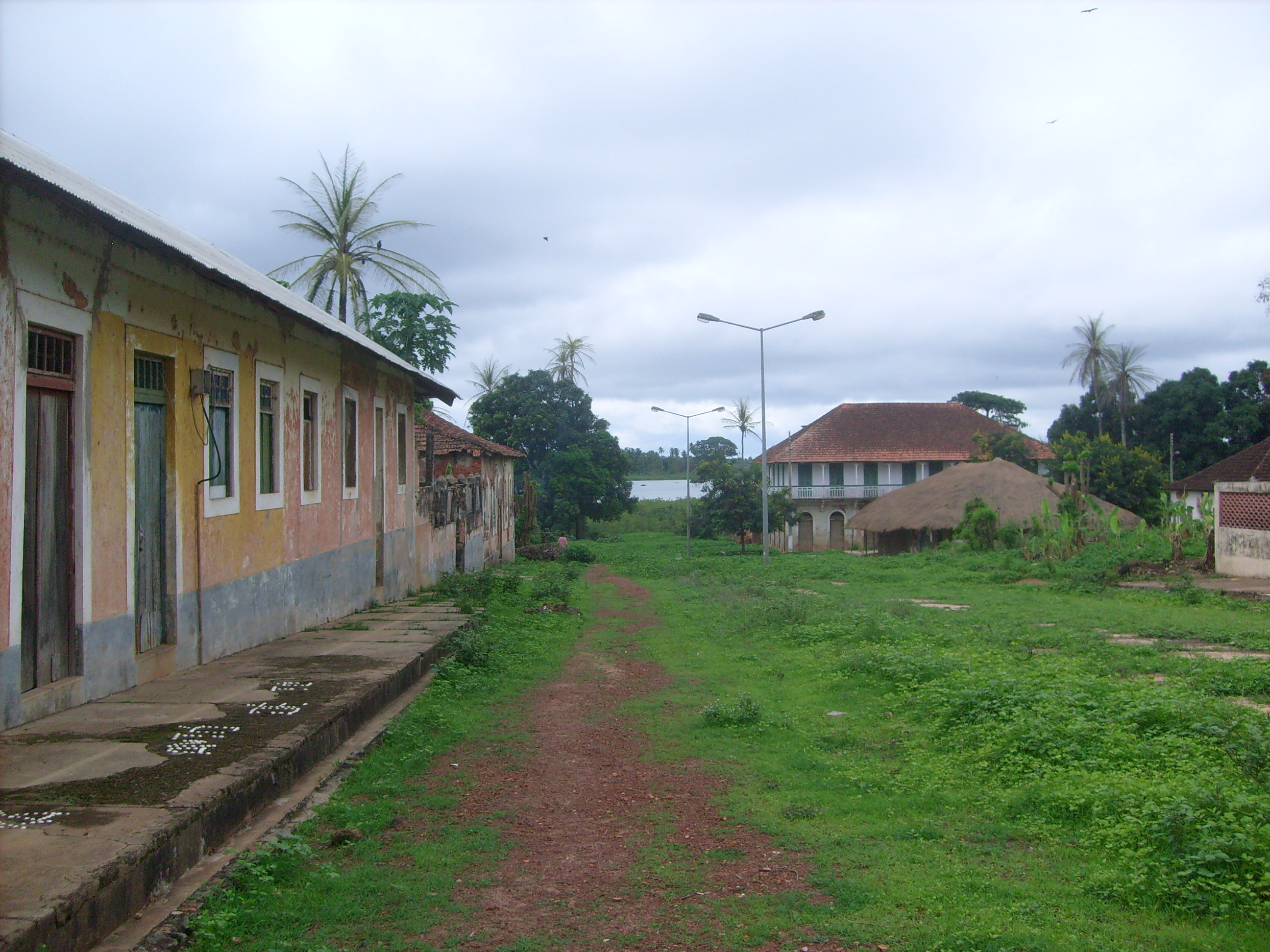 Bolama, Guinea-Bissau, street view